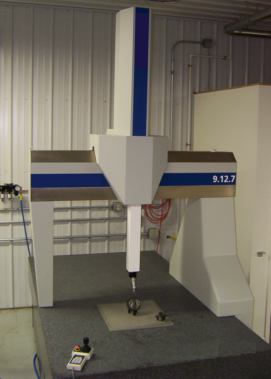 9.12.7 CMM